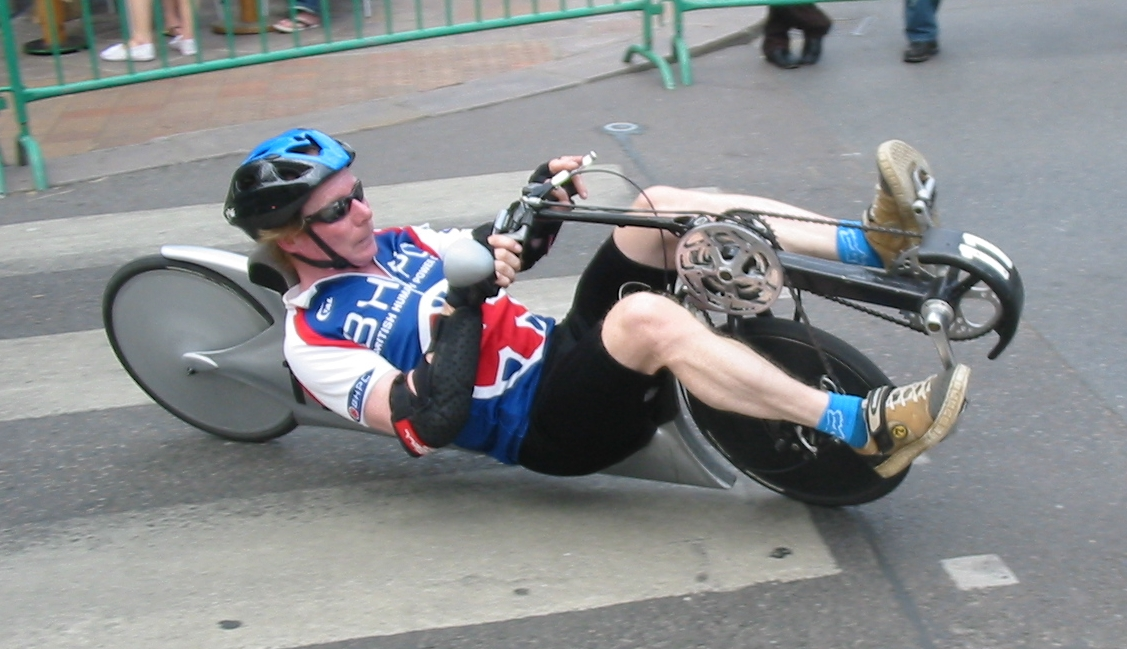 Jersey Town Criterium bicycle races, Saint Helier, Jersey, 24 May 2009